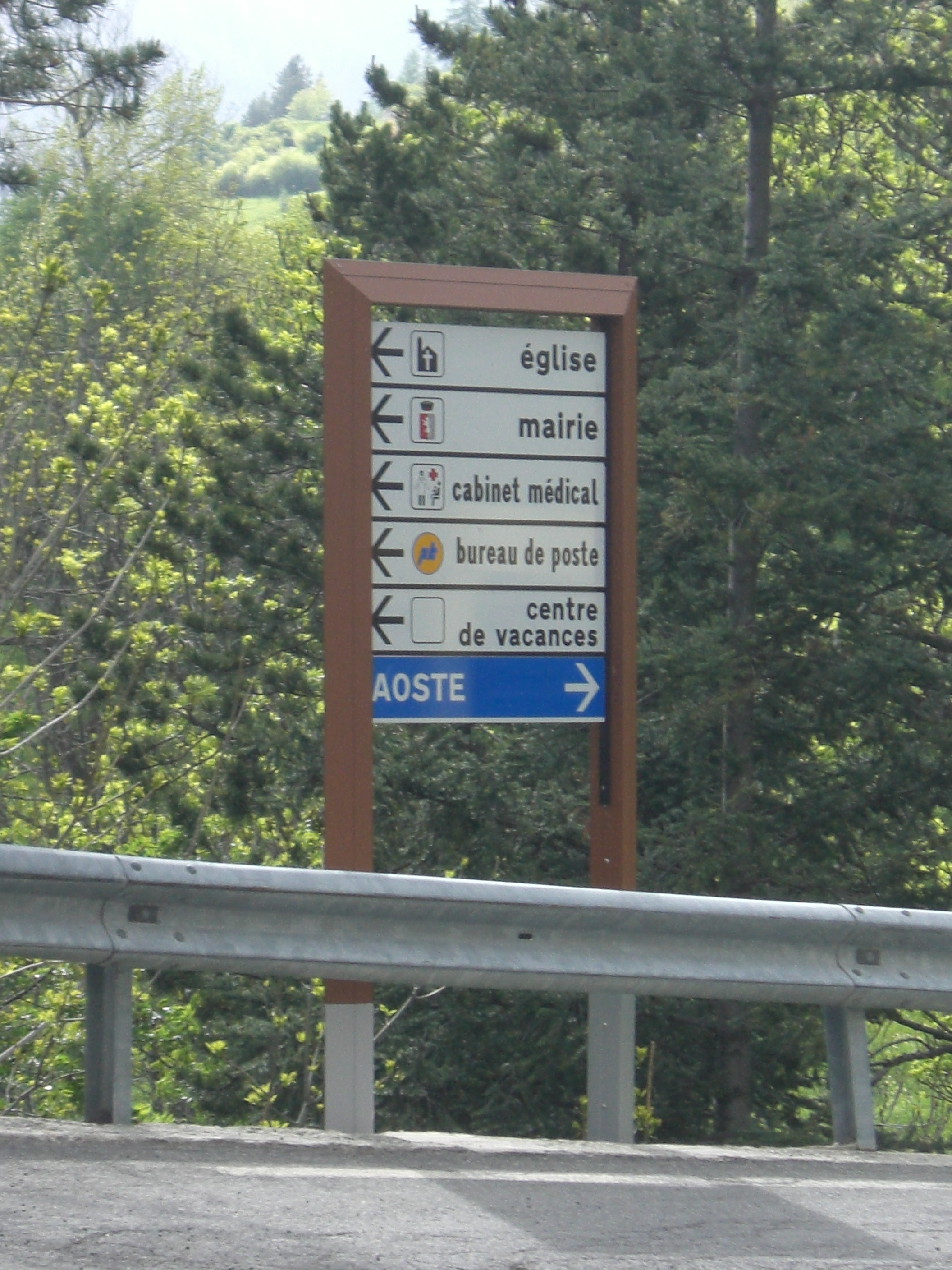 Road signal in Allein